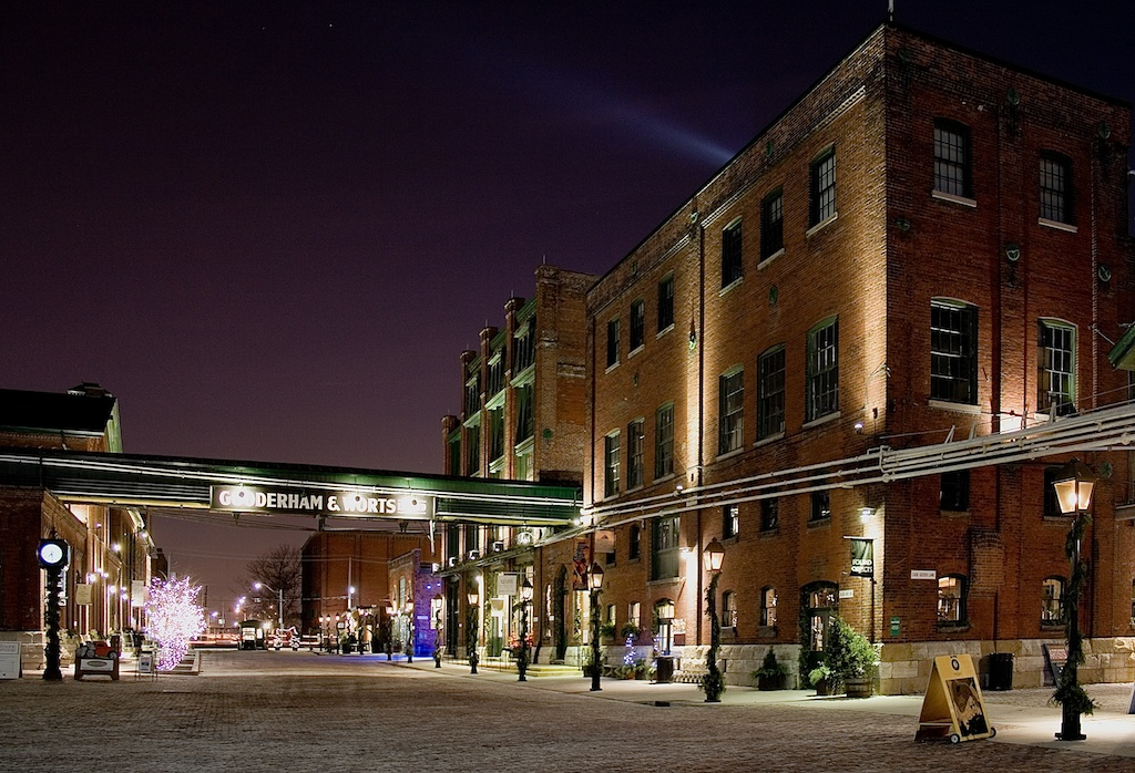 Gooderham and Worts Distillery, Toronto, Ontario, Canada